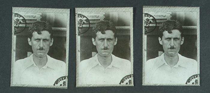 Description: Photographs of Eric Blair (George Orwell) from his Metropolitan Police file Date: c.1940 Our Catalogue Reference: MEPO 38/69 This image is from the collections of The National Archives. Feel free to share it within the spirit of the Commons. For high quality reproductions of any item from our collection please contact our image library.